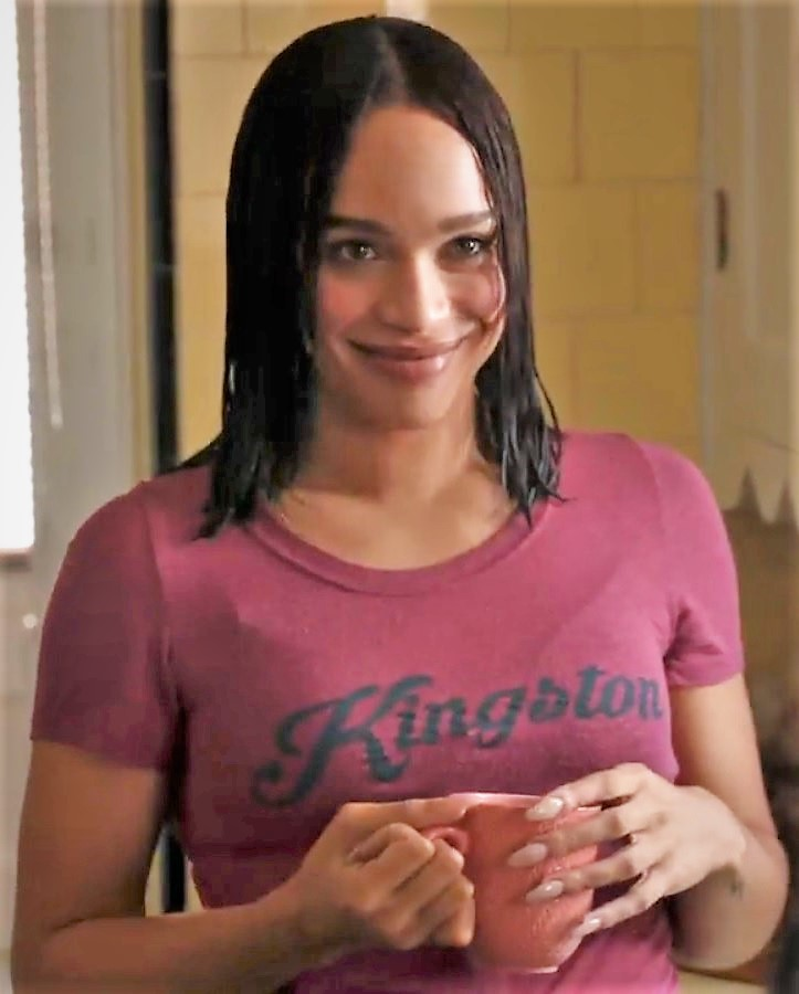 Sadie (Cleopatra Coleman) talks with Floyd about trying to get Trevor (Lonnie Chavis) into a private school. Starring Jay Pharoah. 'I'm Available For Anything You Need' Ep. 2 Official Clip | White Famous | Season 1